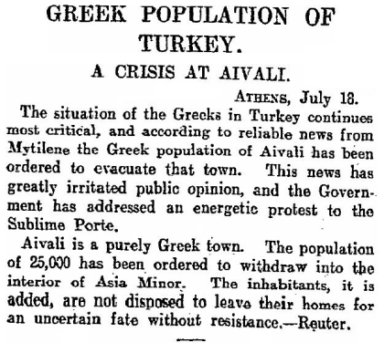 Greek Population of Turkey Crisis at Aivali Athens, July 18. The situation of the Greeks in Turkey continues most critical, and according to reliable news from Mytilene the Greek population of Aivali has been ordered to evacuate that town. This news has been greatly irritated public opinion, and the Government has addressed an energetic protest to the Sublime Porte. Aivali is a purely Greek town. The population of 25,000 has been ordered to withdraw into the interior of Asia Minor. The inhabitants, it is added, are not disposed to leave their homes for an uncertain fate without resistance.--Reuter.